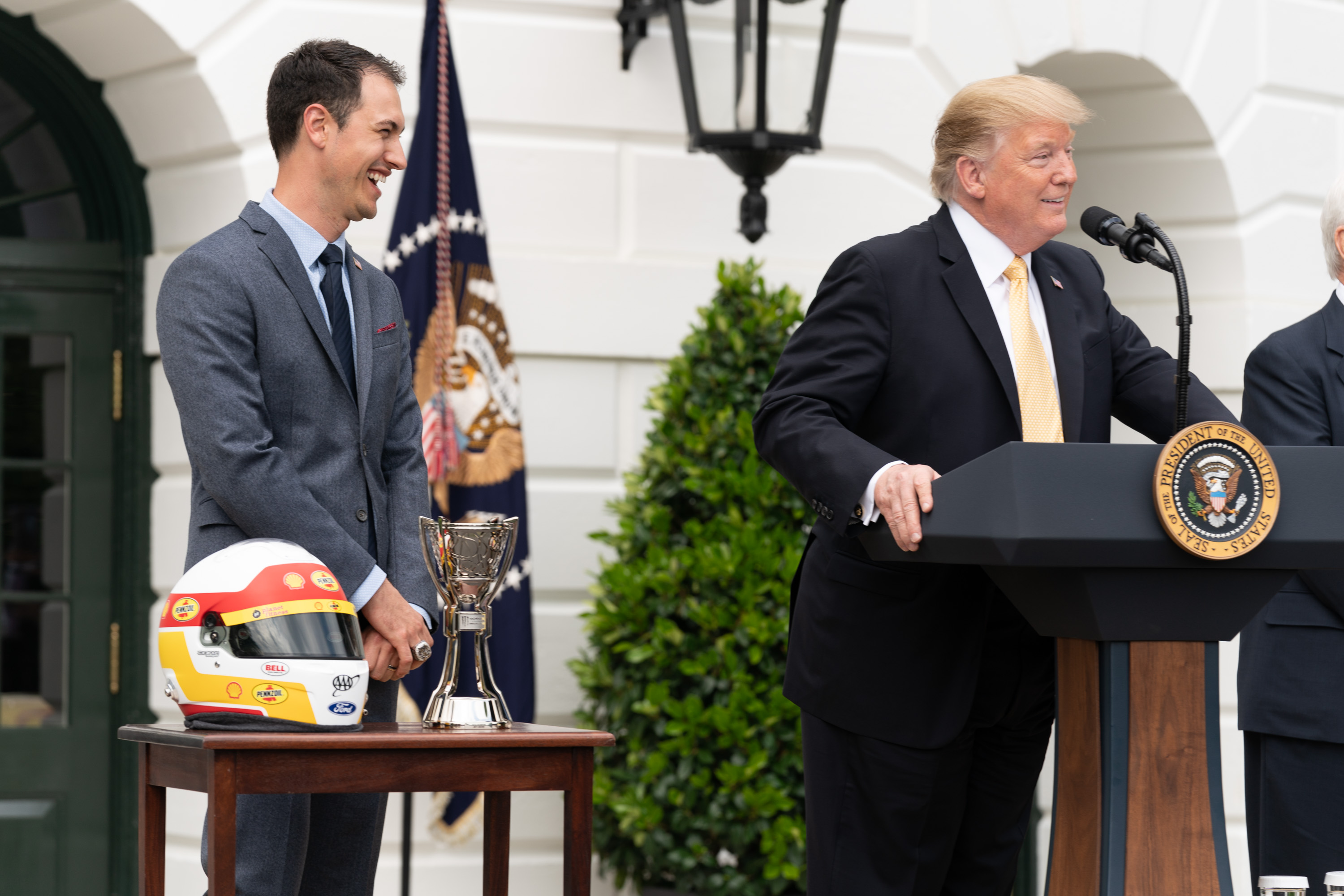 President Donald J. Trump honors 2018 NASCAR Cup Series Champion Joey Logano and team Penske owner Roger Penske Tuesday, April 30, 2019, on the South lawn of the White House. (Official White House Photo by Shealah Craighead)